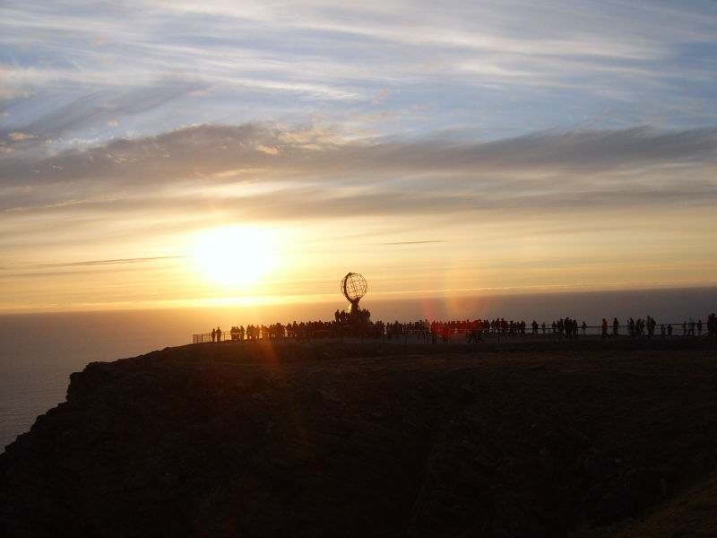 Northcap at midnight, July 2005 Personnal picture, I set it in public domain